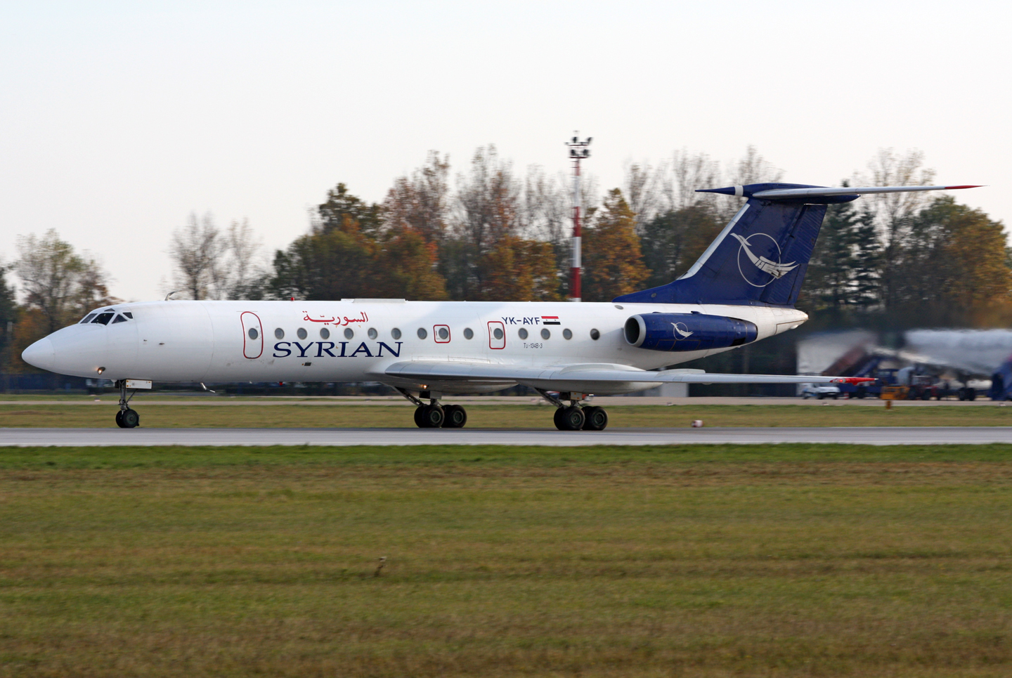 Syrian Tu-134, a real rarity at Zagreb airport.